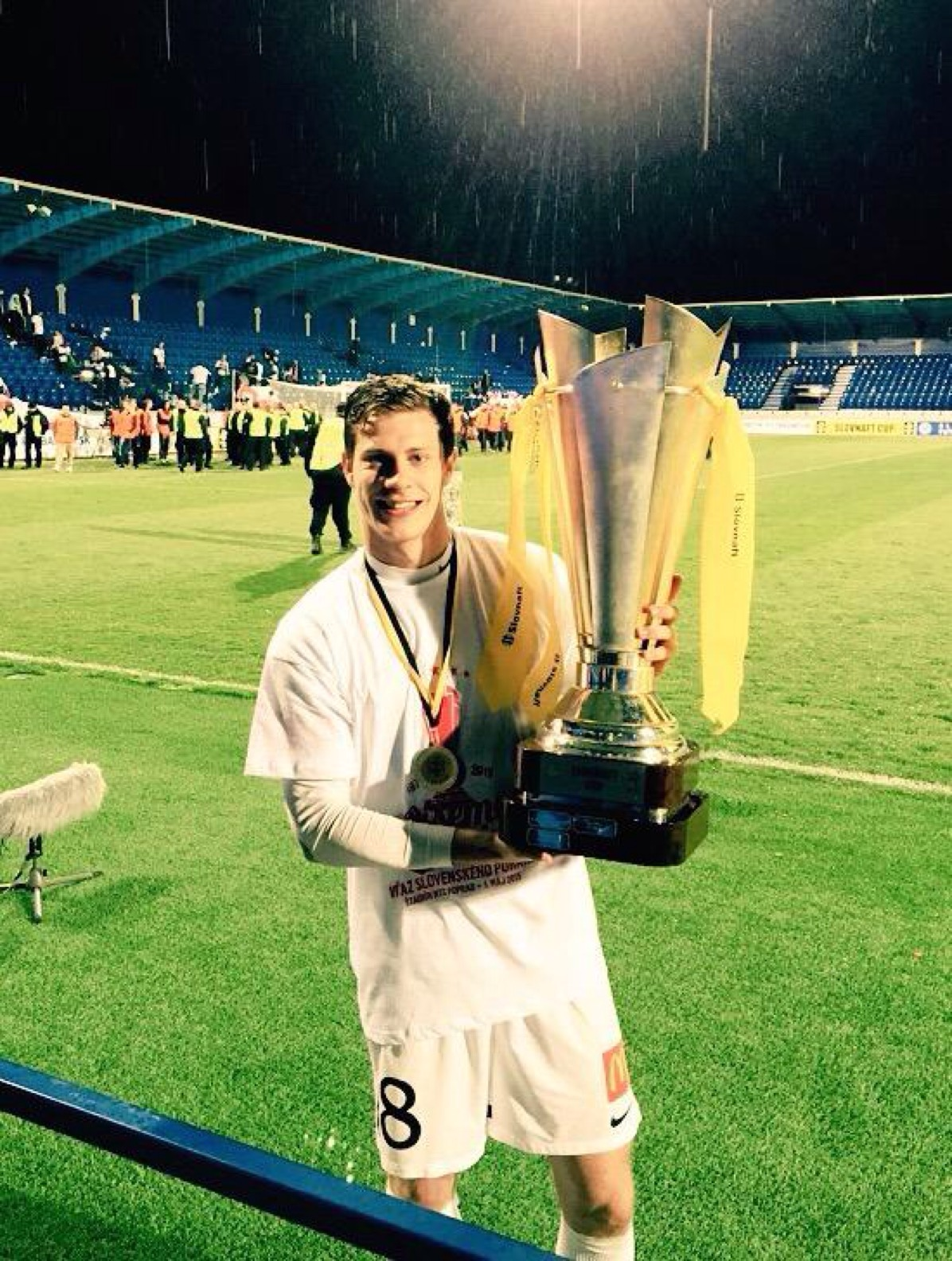 James Lawrence Slovak Cup Final 1 May 2015